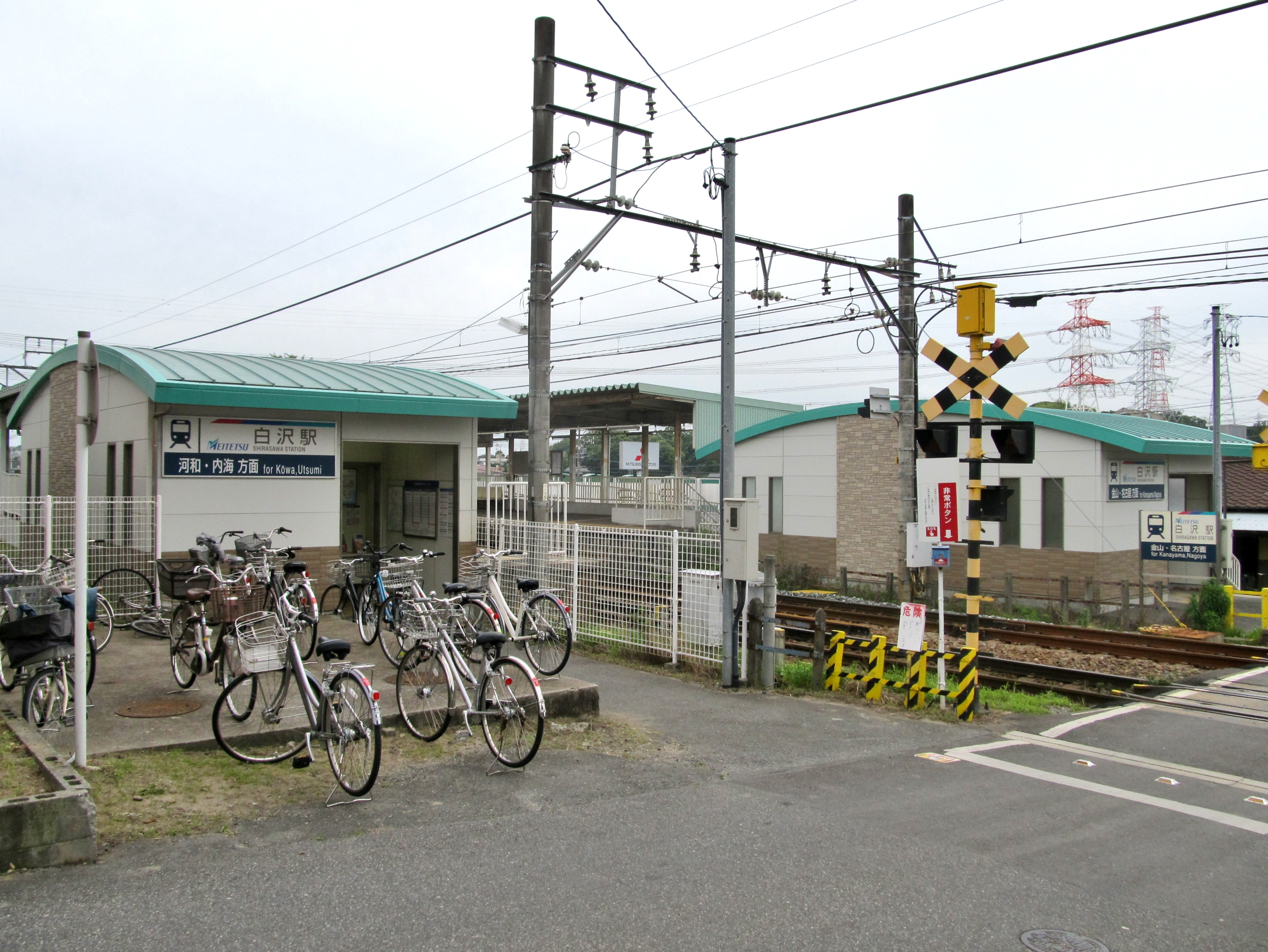 Nagoya Railroad Kowa Line Shirasawa Station Building